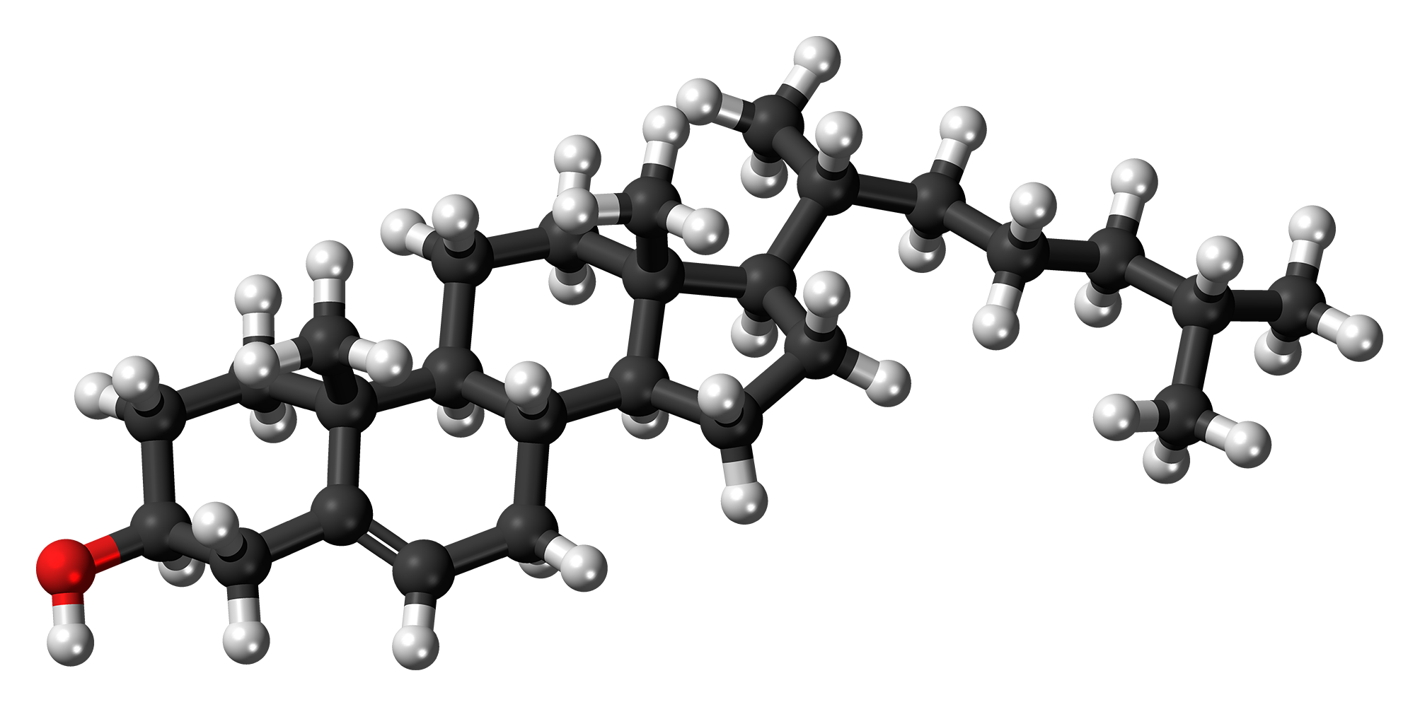 Ball-and-stick model of the cholesterol molecule, a compound essential for animal life that forms the membranes of animal cells. Color code: Carbon, C: black Hydrogen, H: white Oxygen, O: red